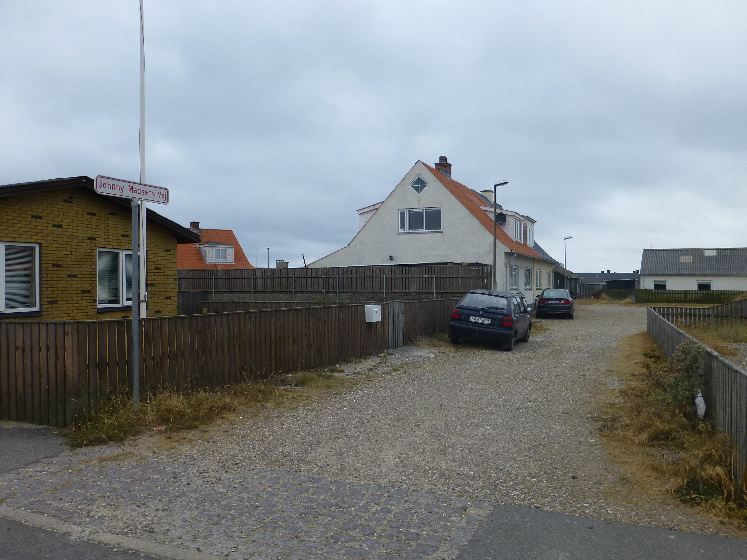 The street Johnny Madsens Vej in Thyborøn in Denmark.